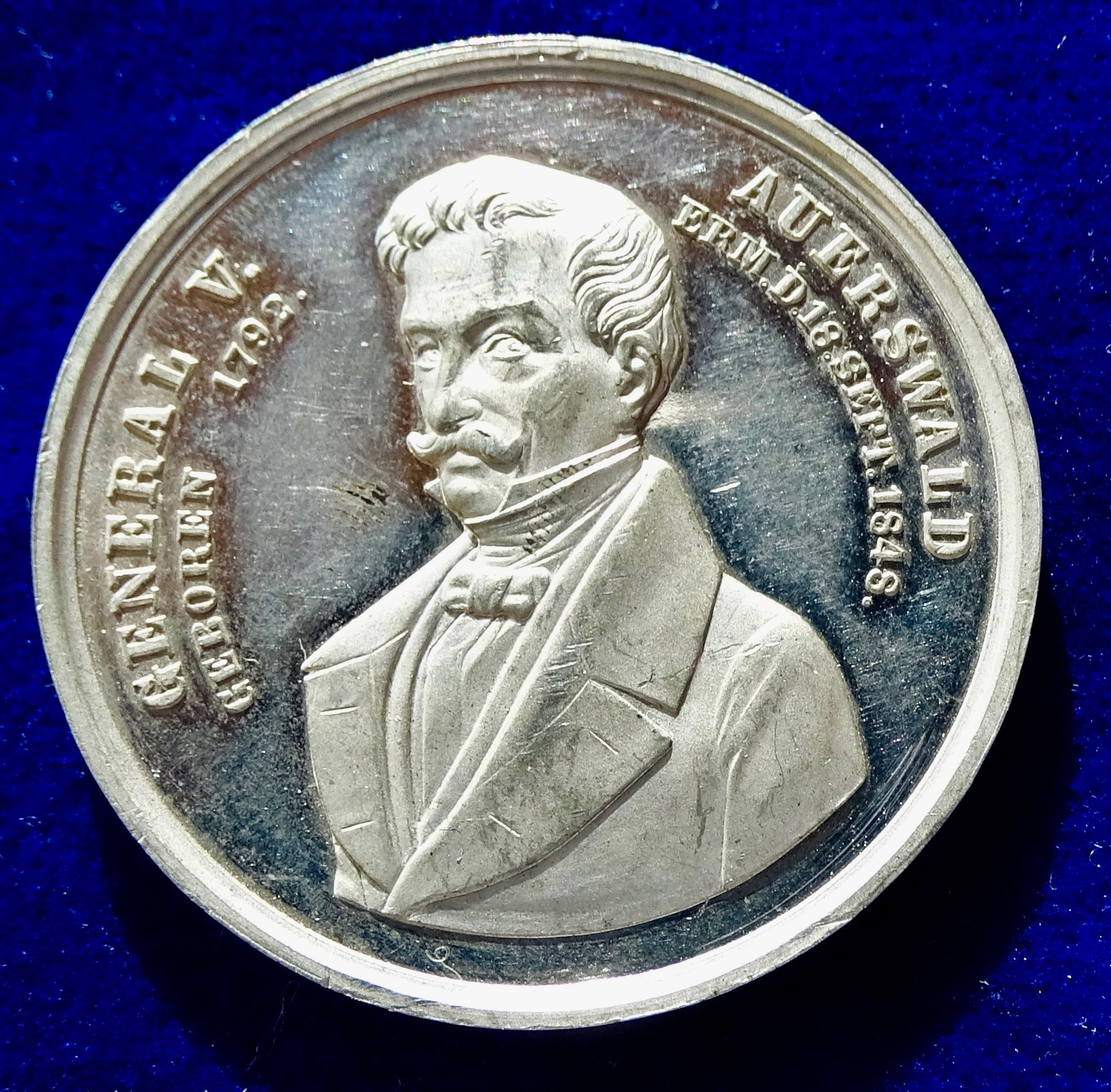 Frankfurt am Main, German Revolution Medal 1848 General Hans von Auerswald Pewter, d. = 37 mm. Hans Adolf Erdmann von Auerswald, Prussian general and politician, 1792 Faulen, West Prussia, today Poland - 1848 Frankfurt, killed by revolutionary radicals. Portrait l., 2 lines around: "GENERAL V. AUERSWALD GEBOREN 1792. ERM.D.18.SEPT. 1848."/ A mourning angel sitting r. under a weeping willow, curved above: "GEFALLEN EIN OPFER FANATISCHER WUTH.". J.u.F. 1159. Medallist: (Gottfried) Drentwett, 1817 - 1871 Augaburg Condition: Very nice EXTREMELY FINE+.